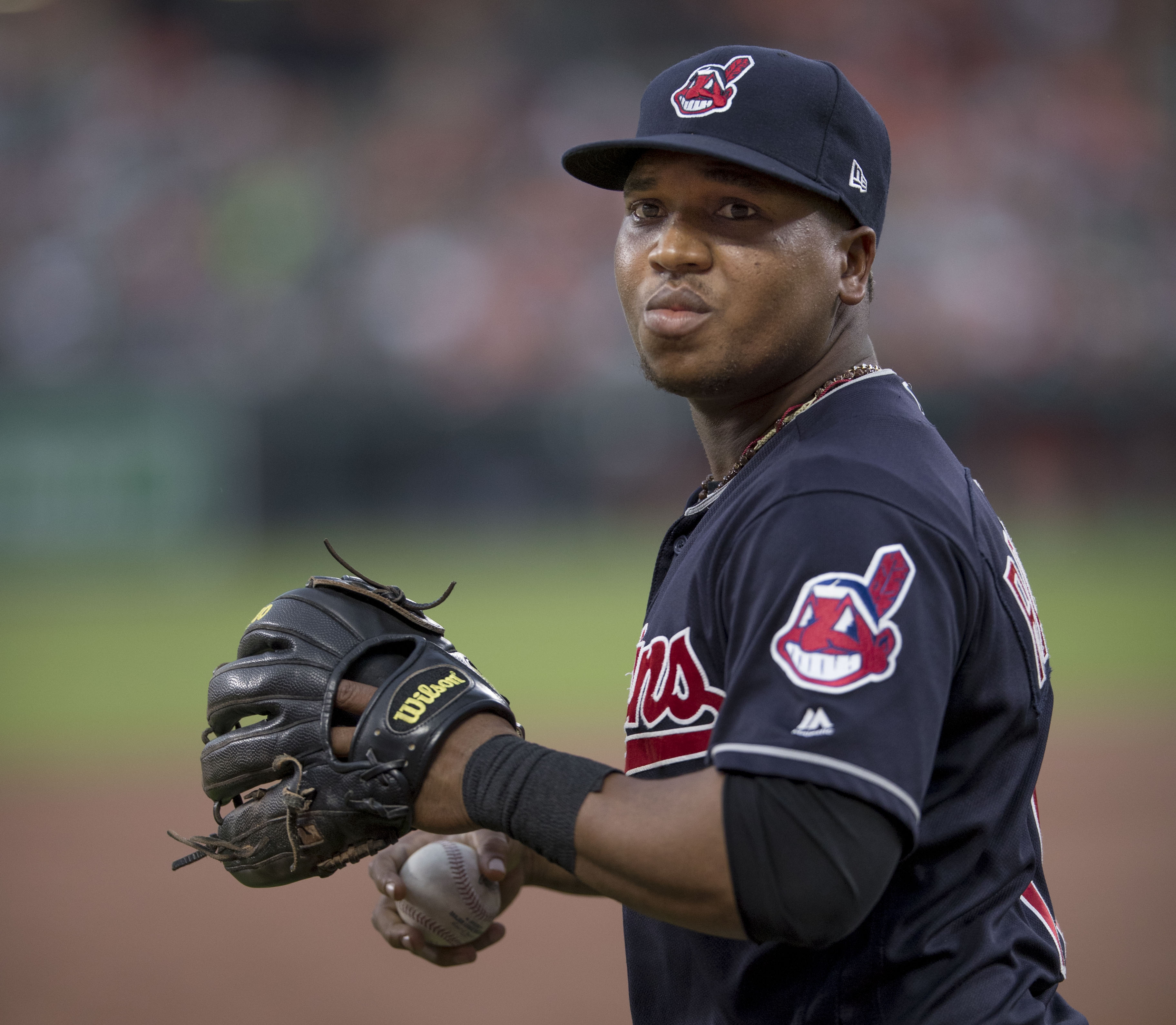 Indians at Orioles 6/22/17